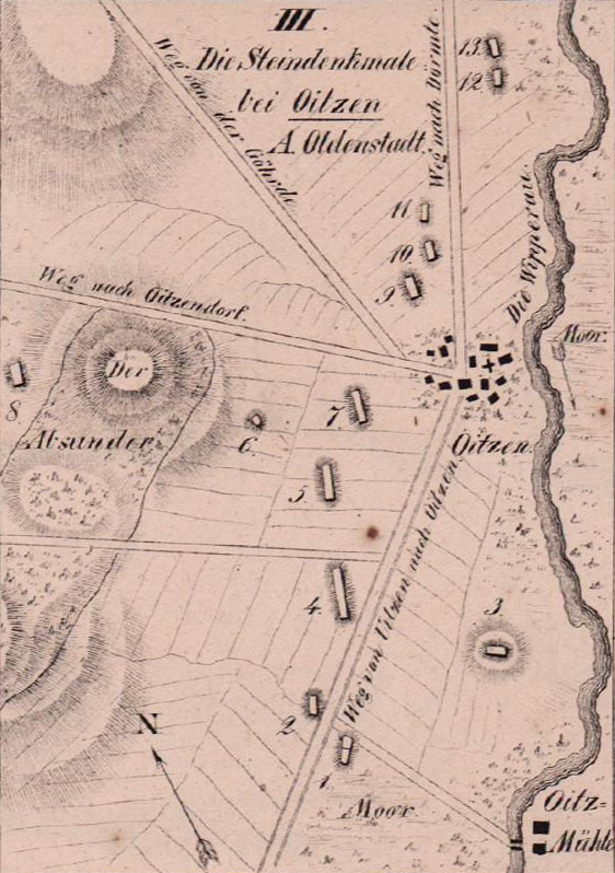 Prehistoric tombs near Oetzen